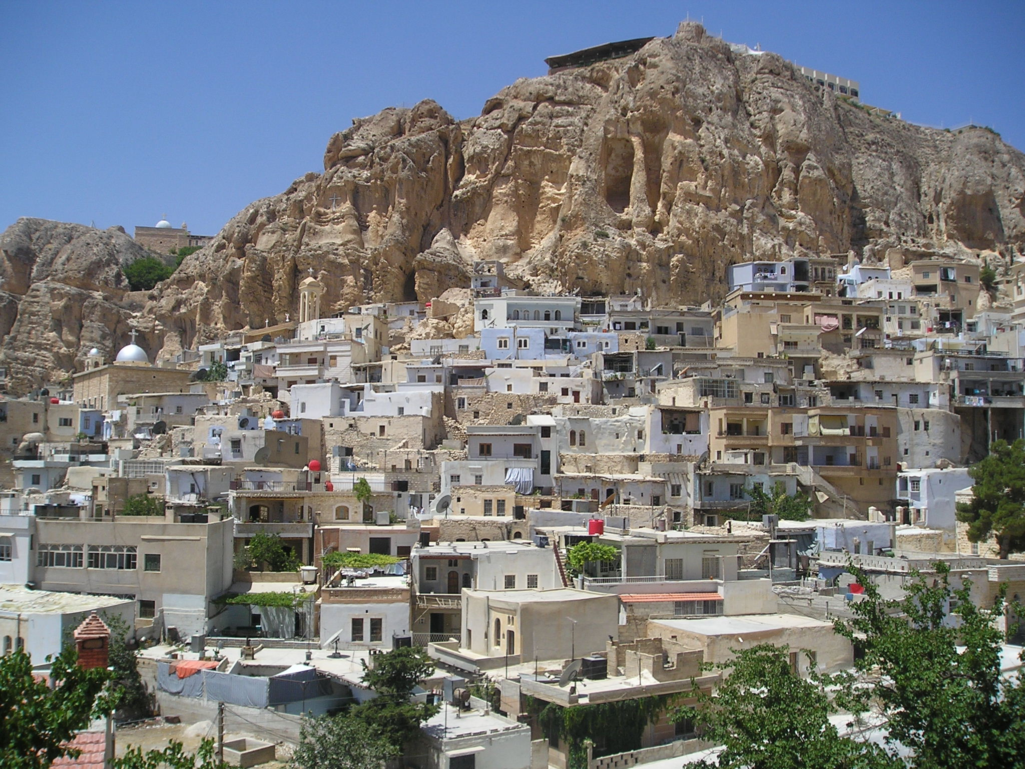 Ma'loula, Syria - a view of the Christian part of the village (at the slope). At the top of the rock neat left border there is Mar Sarkis (St. Serge) monastery.